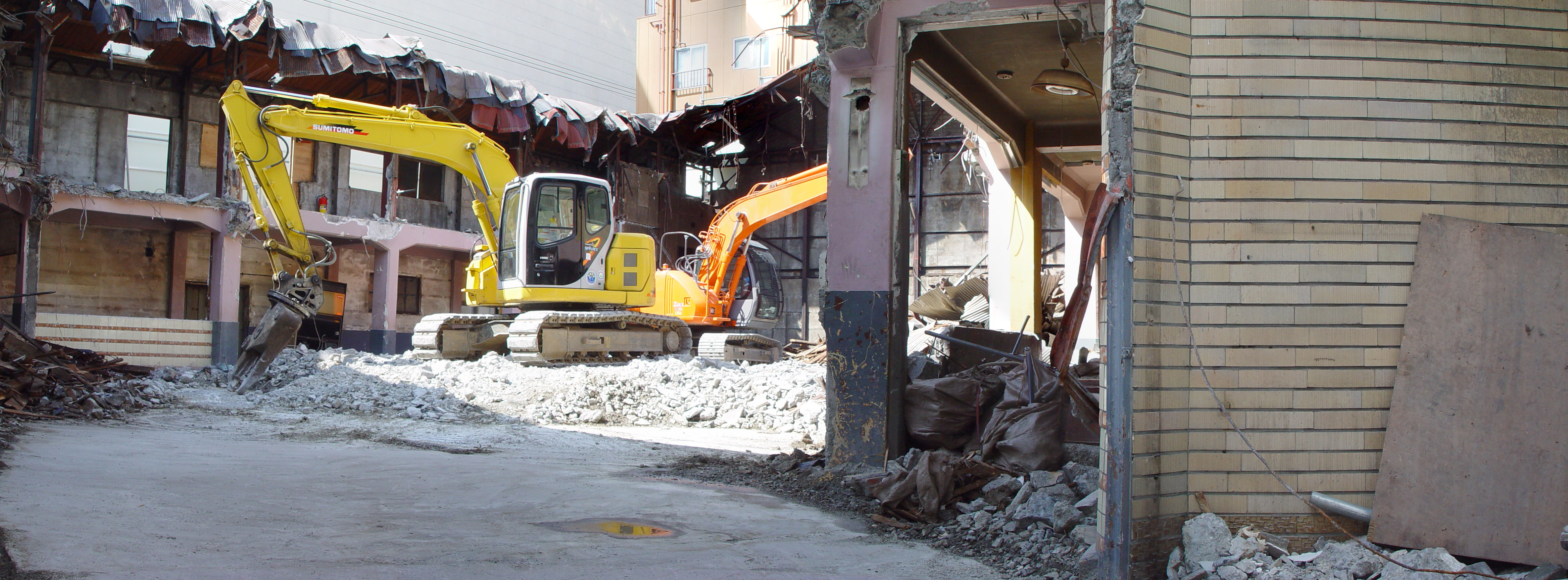 Cinema "Yokohama nichigeki". Yokohama, Kanagawa pref, Japan.